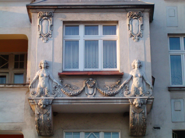 Toruń, Bydgoskie Przedmieście, oriel of house at 60 Mickiewicza Str.